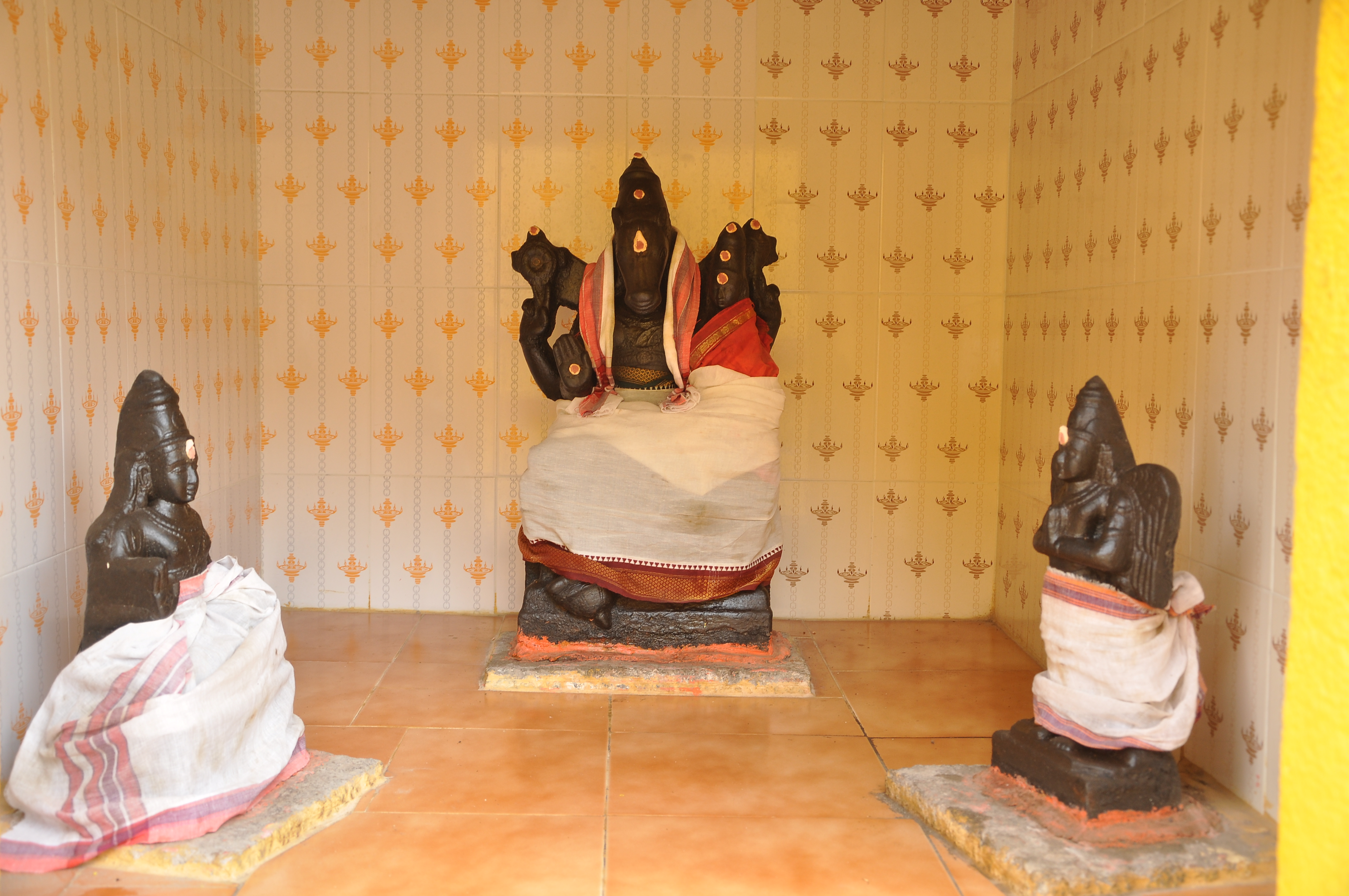 Lakshmi Haygreevar Sivasakthi Amman Temple Thiruninravur